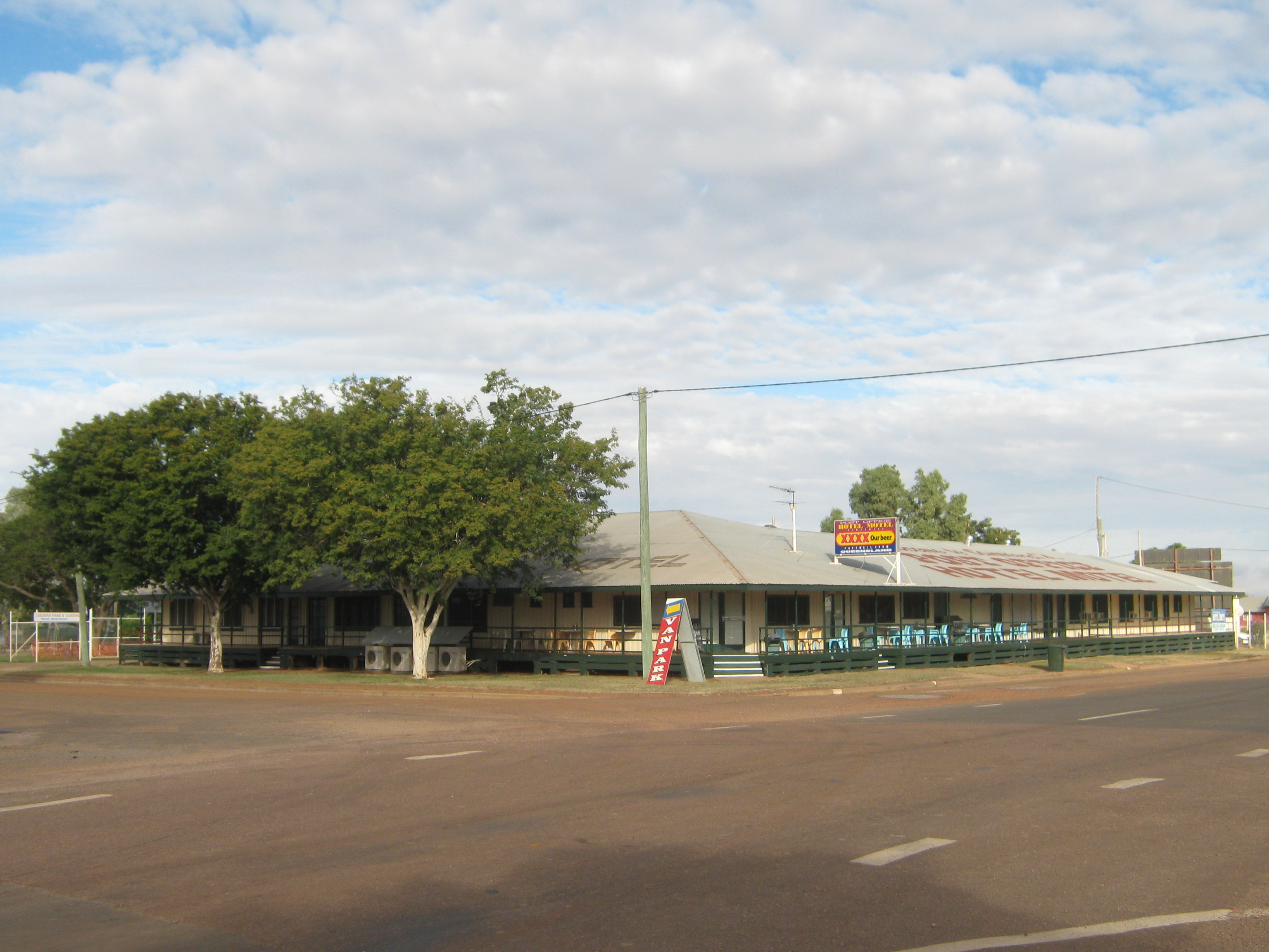 Post Office Hotel Motel at Camooweal, Queensland